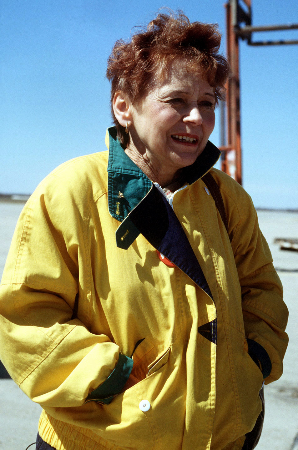 Former Grand Forks, North Dakota mayor Pat Owens at the Grand Forks Air Force Base a week after the 1997 Red River Flood.